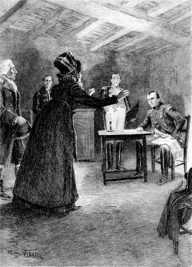 Illustration of Honoré de Balzac's A Dark Affair (1843): "Mademoiselle de Cinq-Cygne to Napoleon".